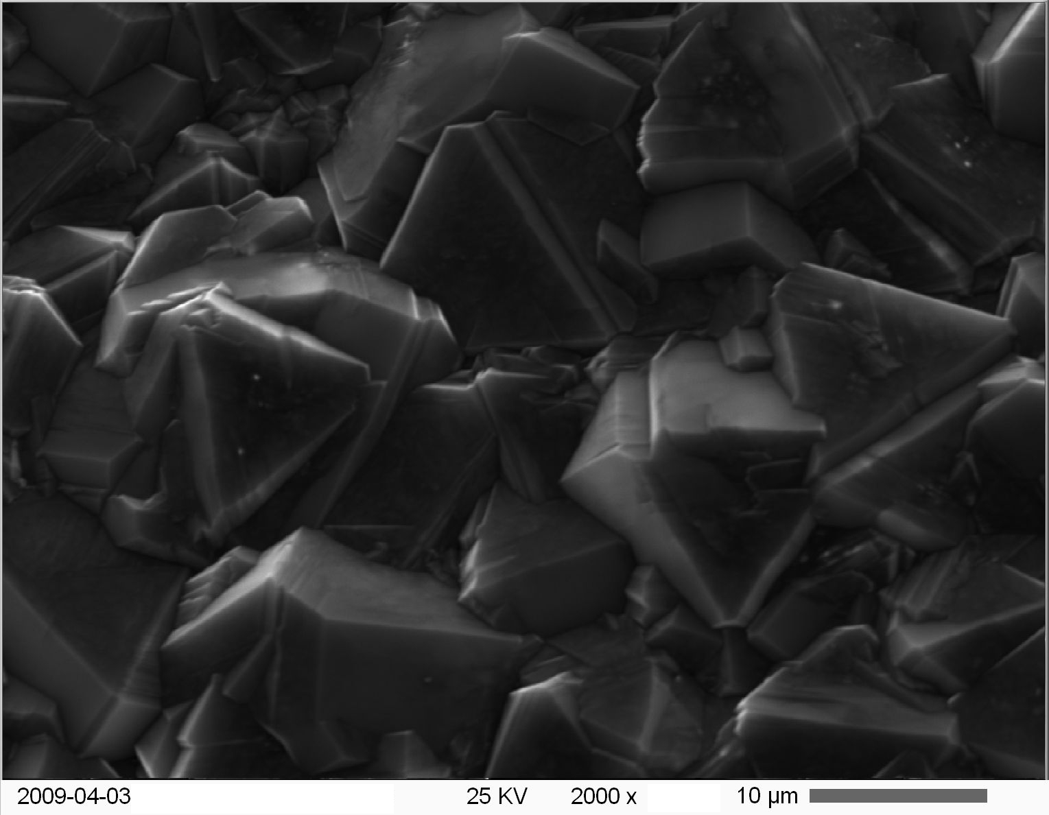 synthetic diamond